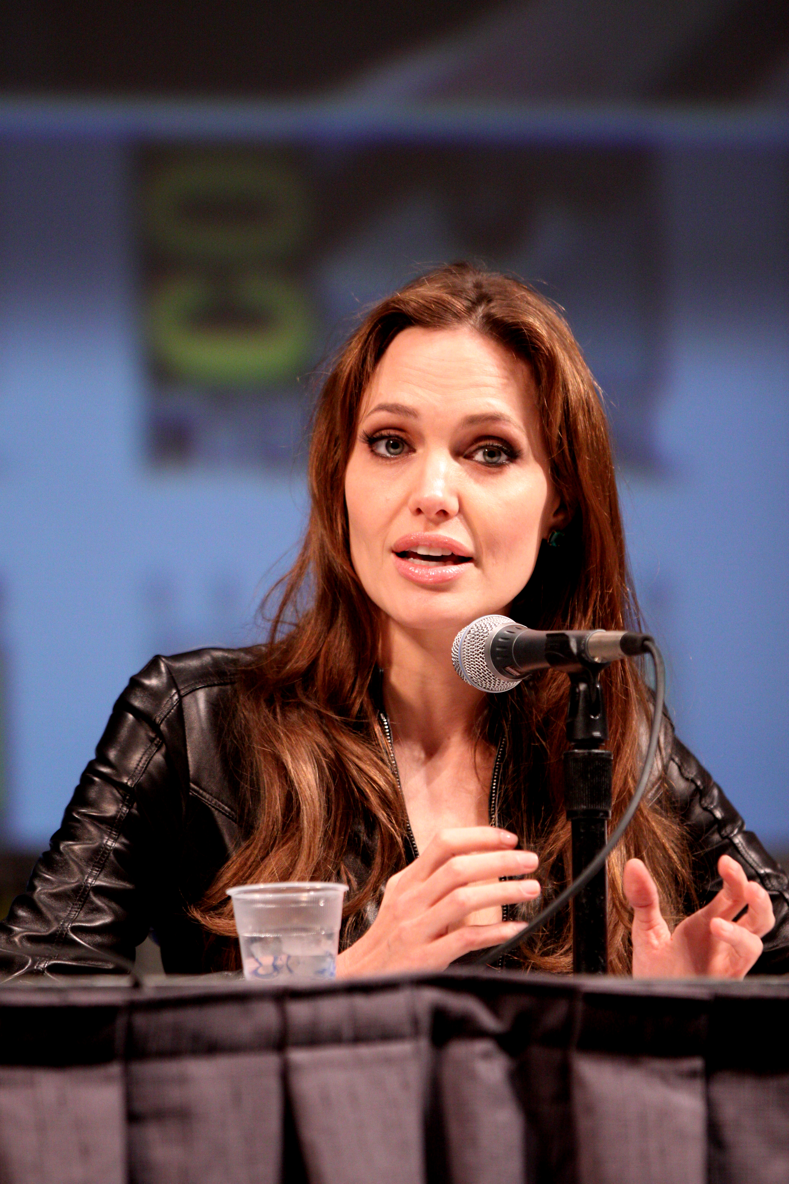 Actress Angelina Jolie on the Salt panel at the 2010 San Diego Comic Con in San Diego, California.